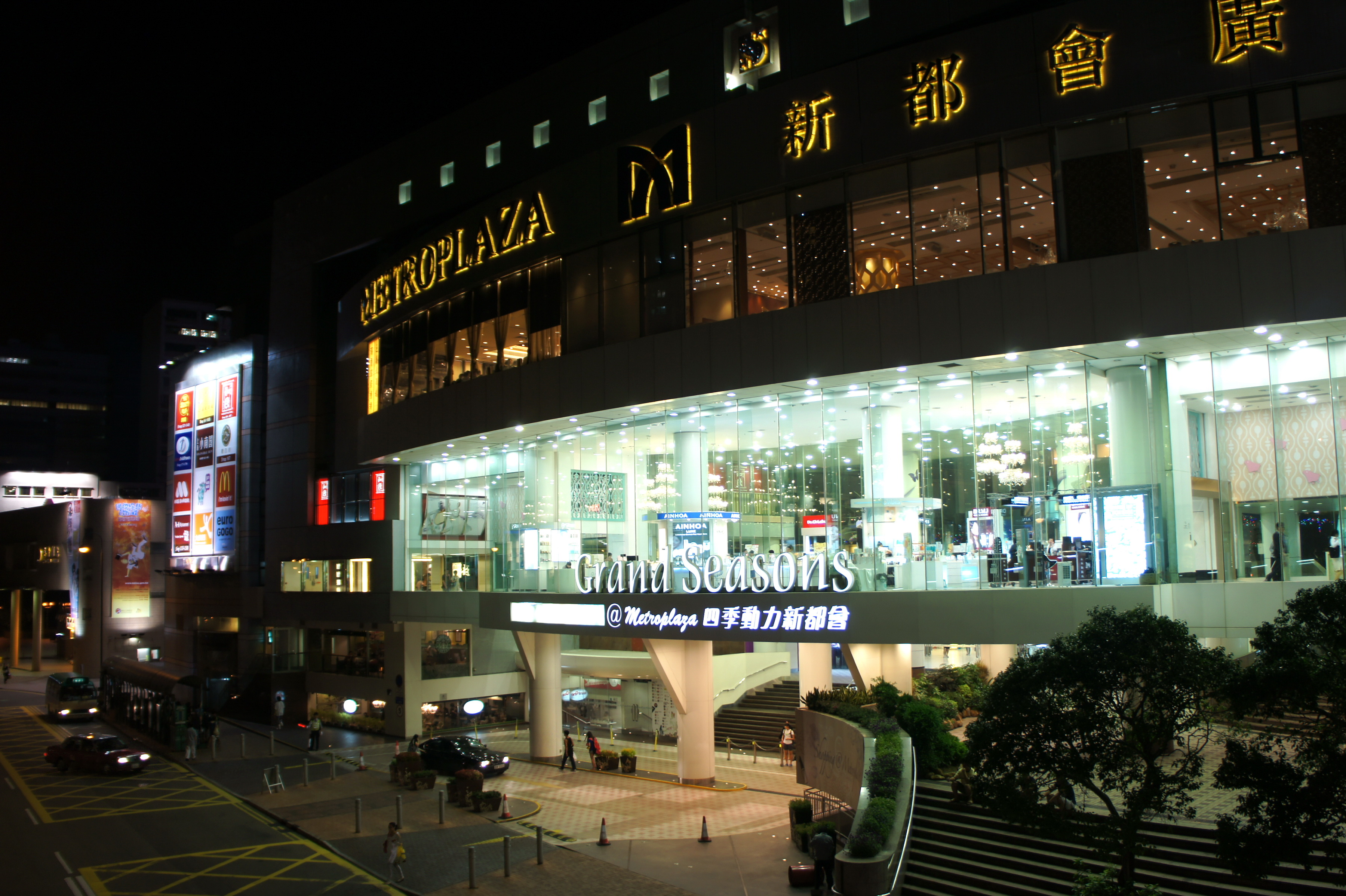 Metroplaza located opposite to the Kwai Fong Station of MTR in Hong Kong.中文（香港）: 香港新界葵青新都會廣場的夜景。